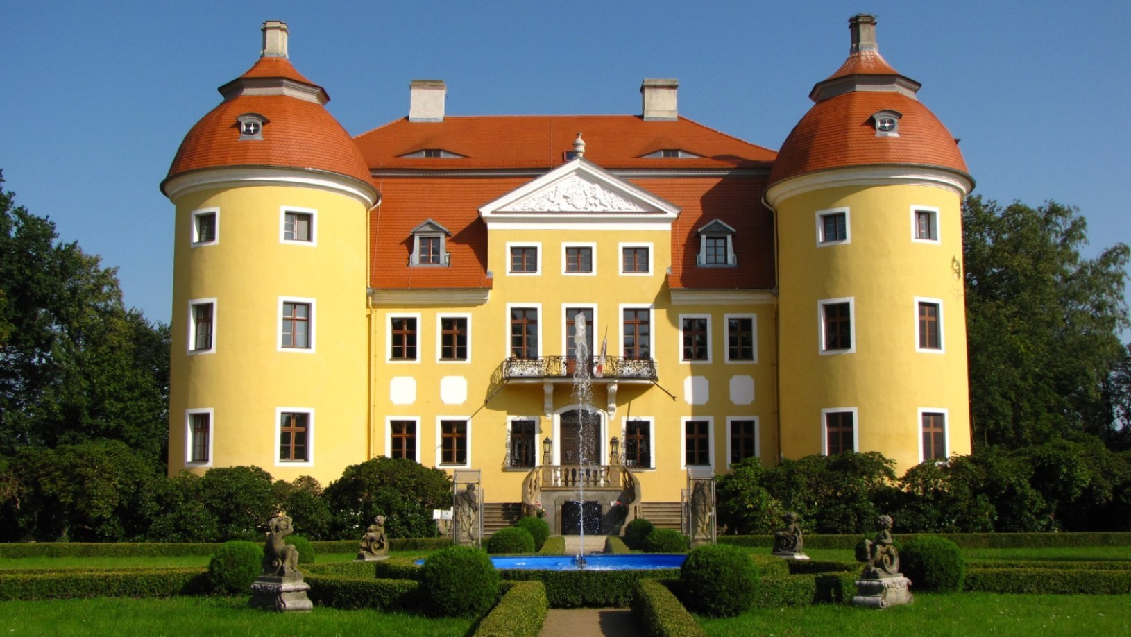 Castle Milkel